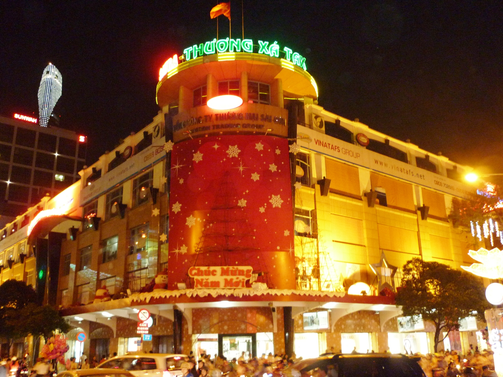 Tax is highlighted at night